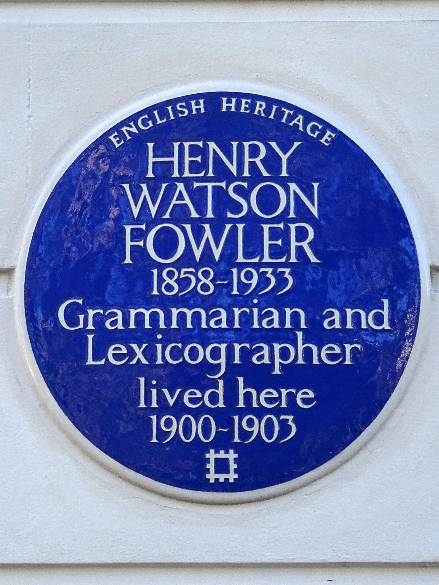 Blue plaque erected in 2016 by English Heritage at 14 Paultons Square, Chelsea, London SW3 5AP, Royal Borough of Kensington and Chelsea